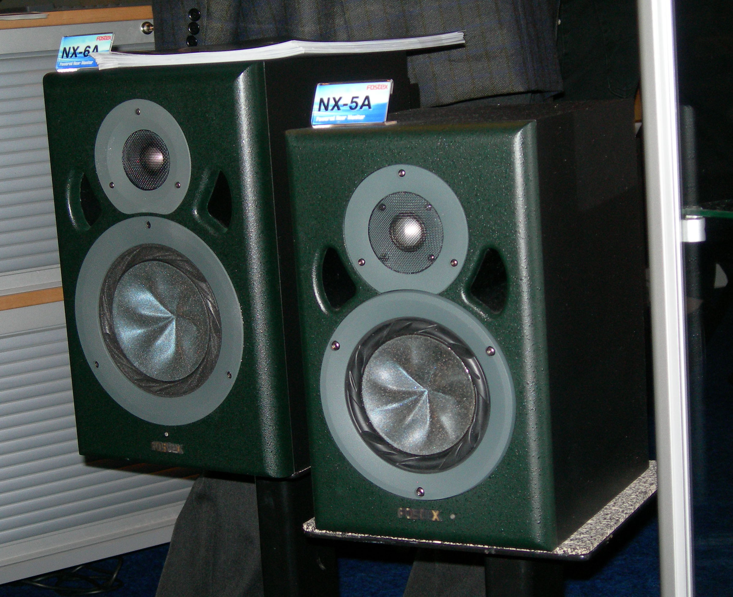 Fostex NX-6A and NX-5A nearfield active monitors; IBC 2008, Amsterdam